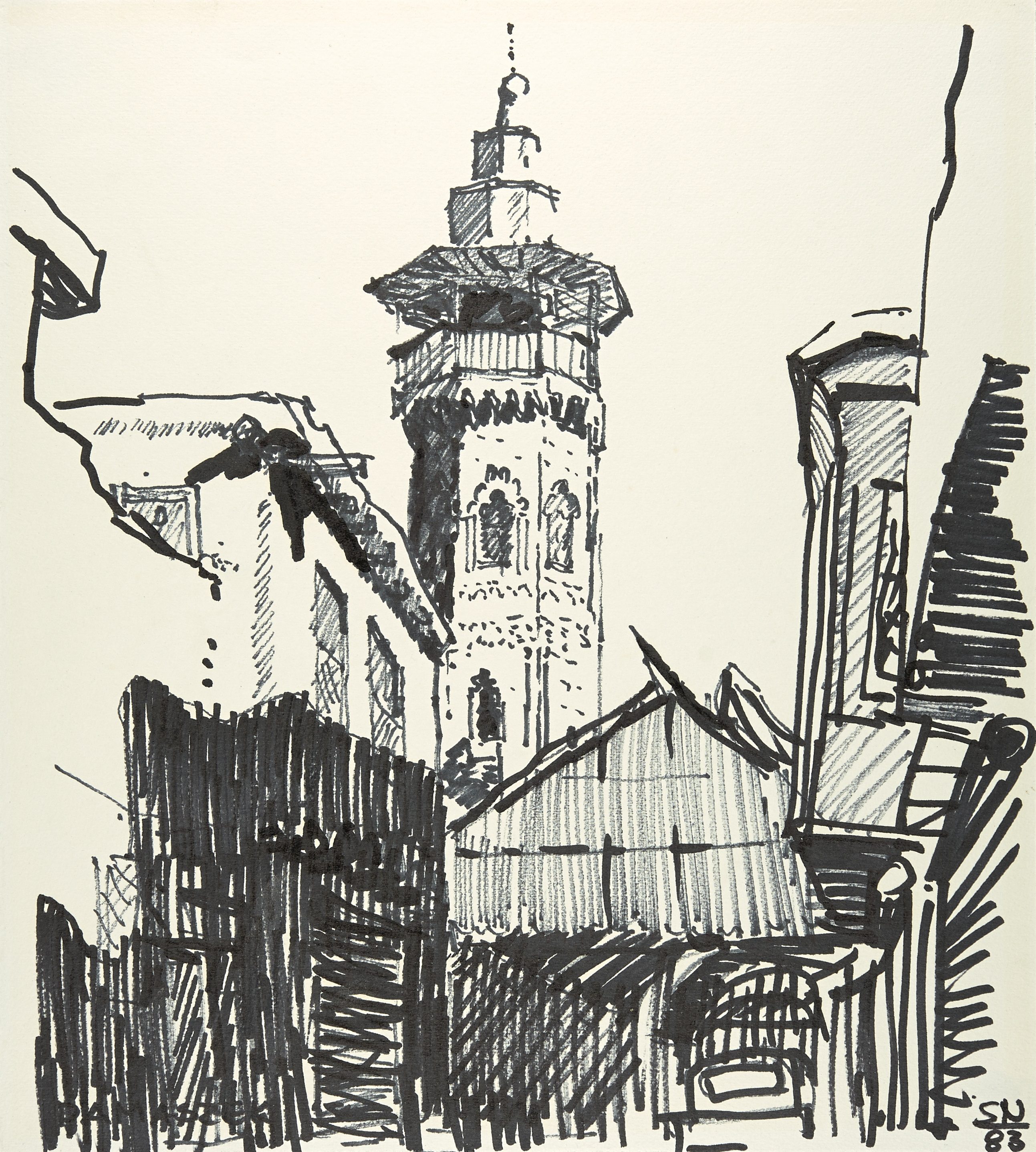 Umayyad Mosque - flamaster graphics